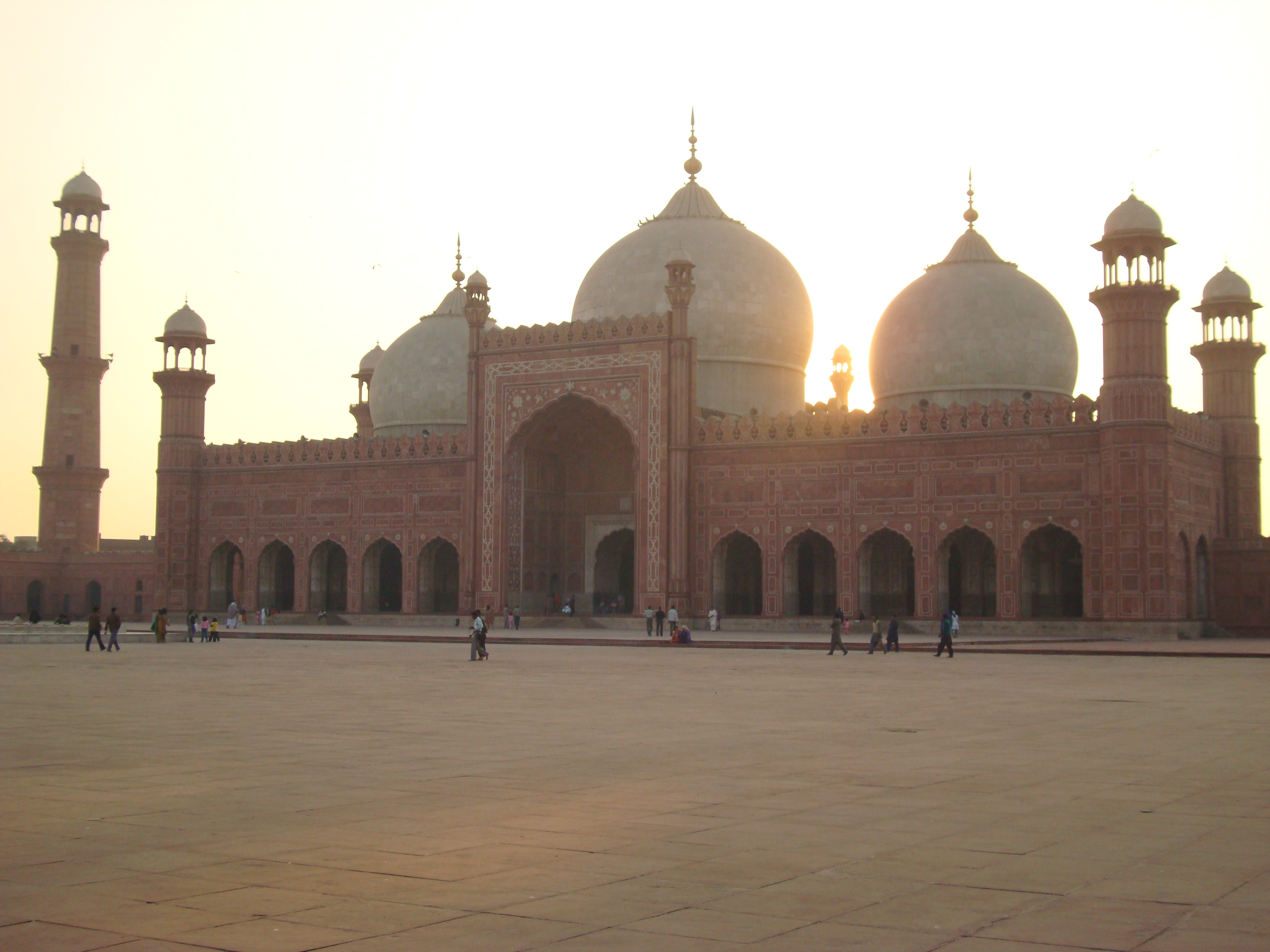 Constructed under the rule rule of 6th Mughal Emperor Aurangzeb in 1673AD. it has the capacity to hold 60,000 worshipers at a time. minaret height is 176 feet, large dome in the centre is of 70 feet in diameter & 49 feet high. This is a photo of a monument in Pakistan identified as the PB-44